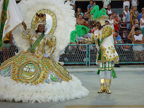 Carnival - Rio de Janeiro, Brazil - 2003.